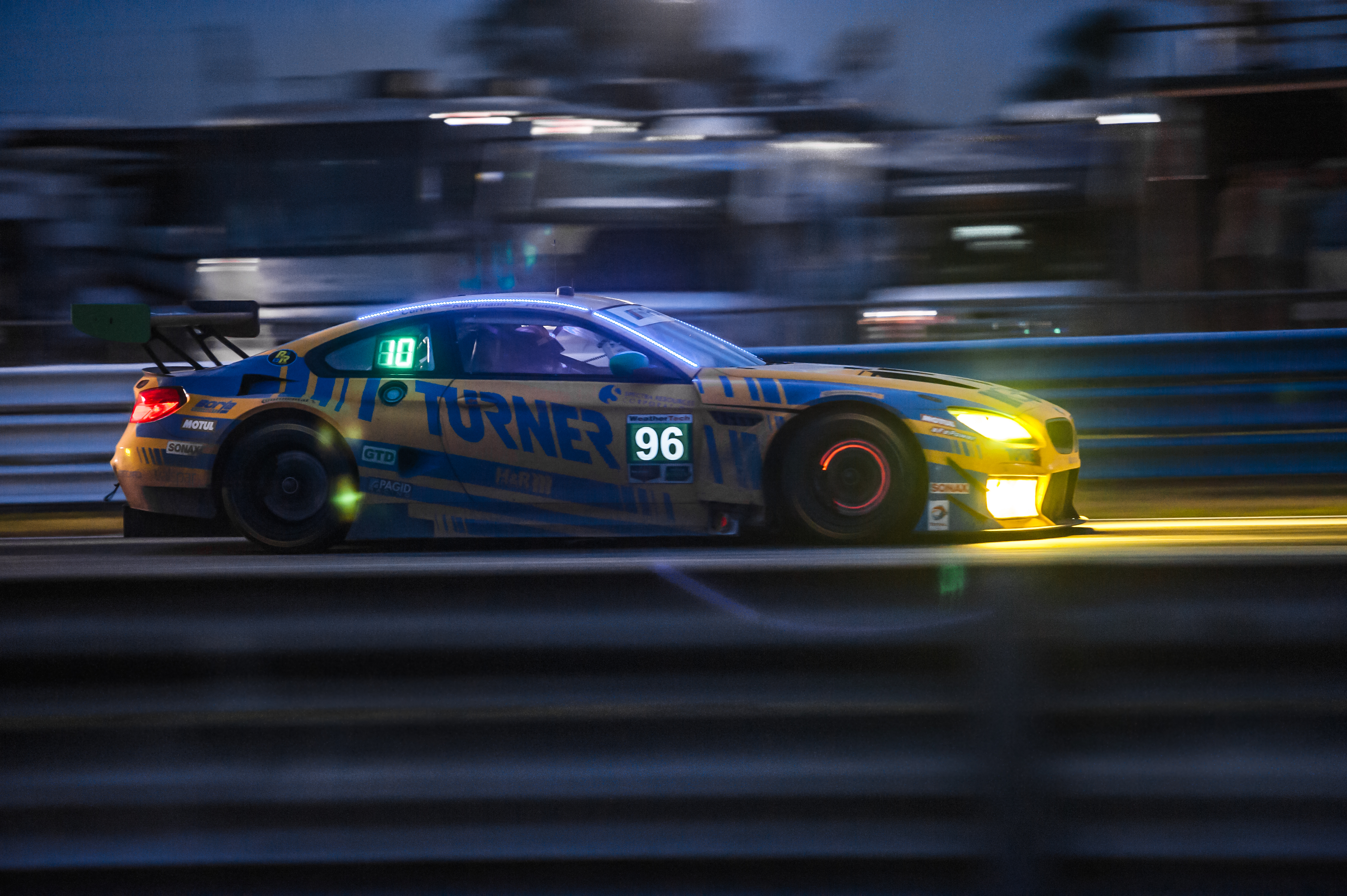 Some photos from my annual trip to the 12 Hours of Sebring.